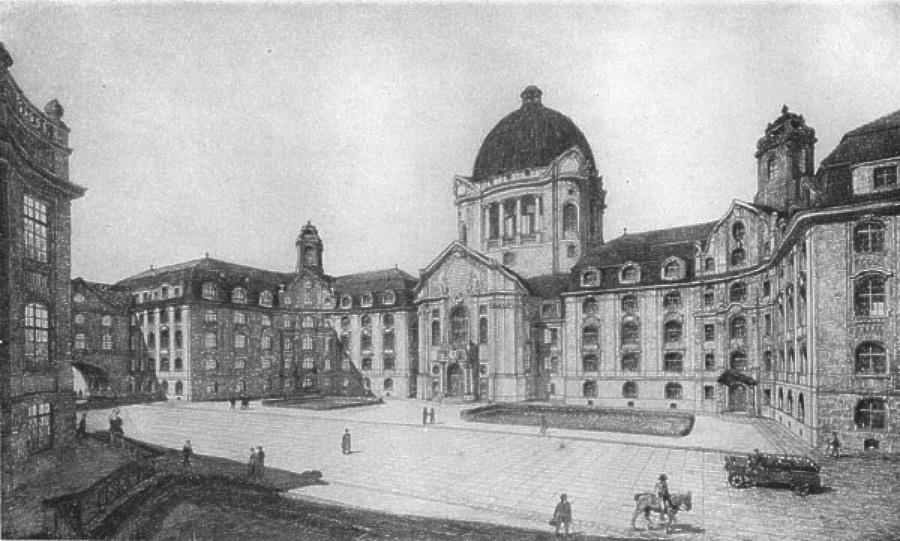 Building of the Royal Bavarian Ministery of Transport, Munich, Arnulfstrasse, 1916. Built by Carl Hocheder (1854-1917) between 1906 and 1913. This wing was destroyed in World War II